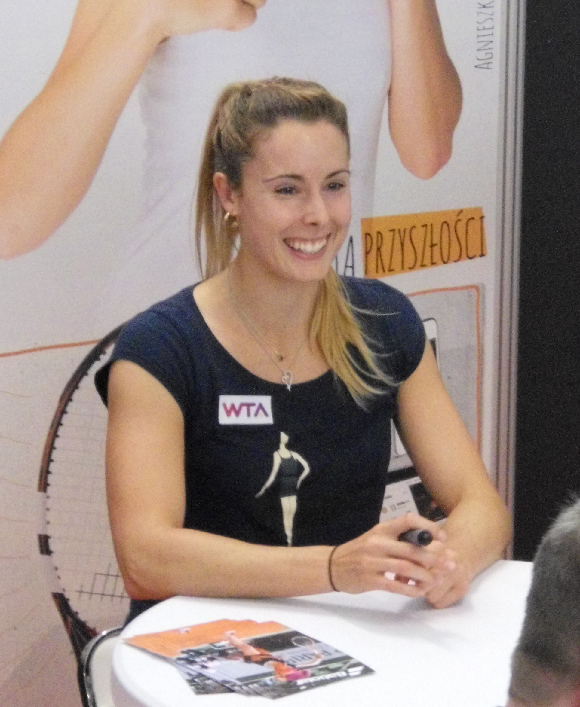 Alizé Cornet at autograph session at BNP Paribas Katowice Open 2014